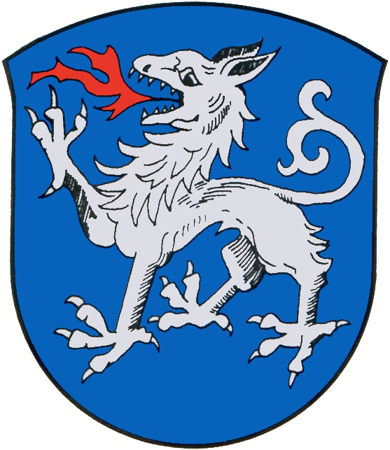 former coat of arms of the town of Karlstein (now Bad Reichenhall)